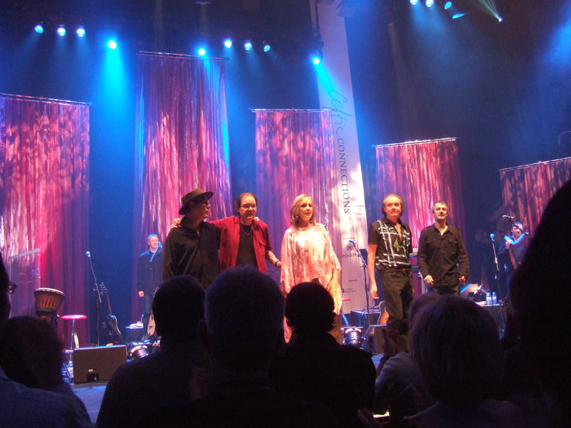 I took this picture myself, therefore I release all rights to use it on this page.